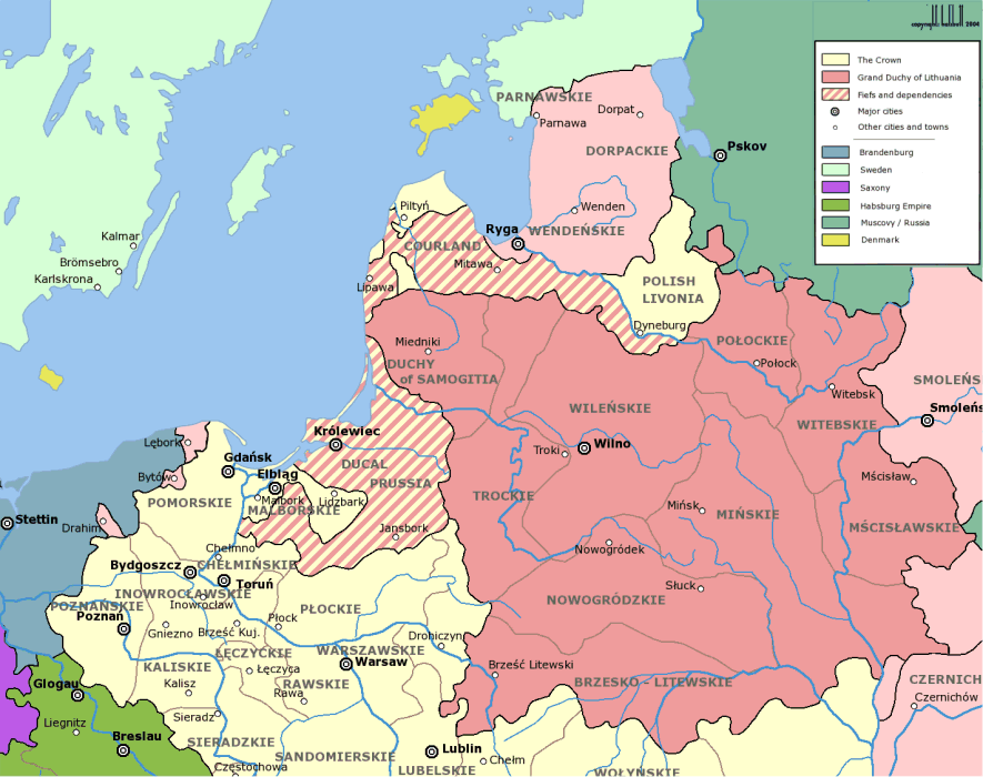 The Baltic area in the late 17th century